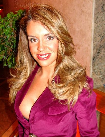 Brazilian model Renata Banhara.